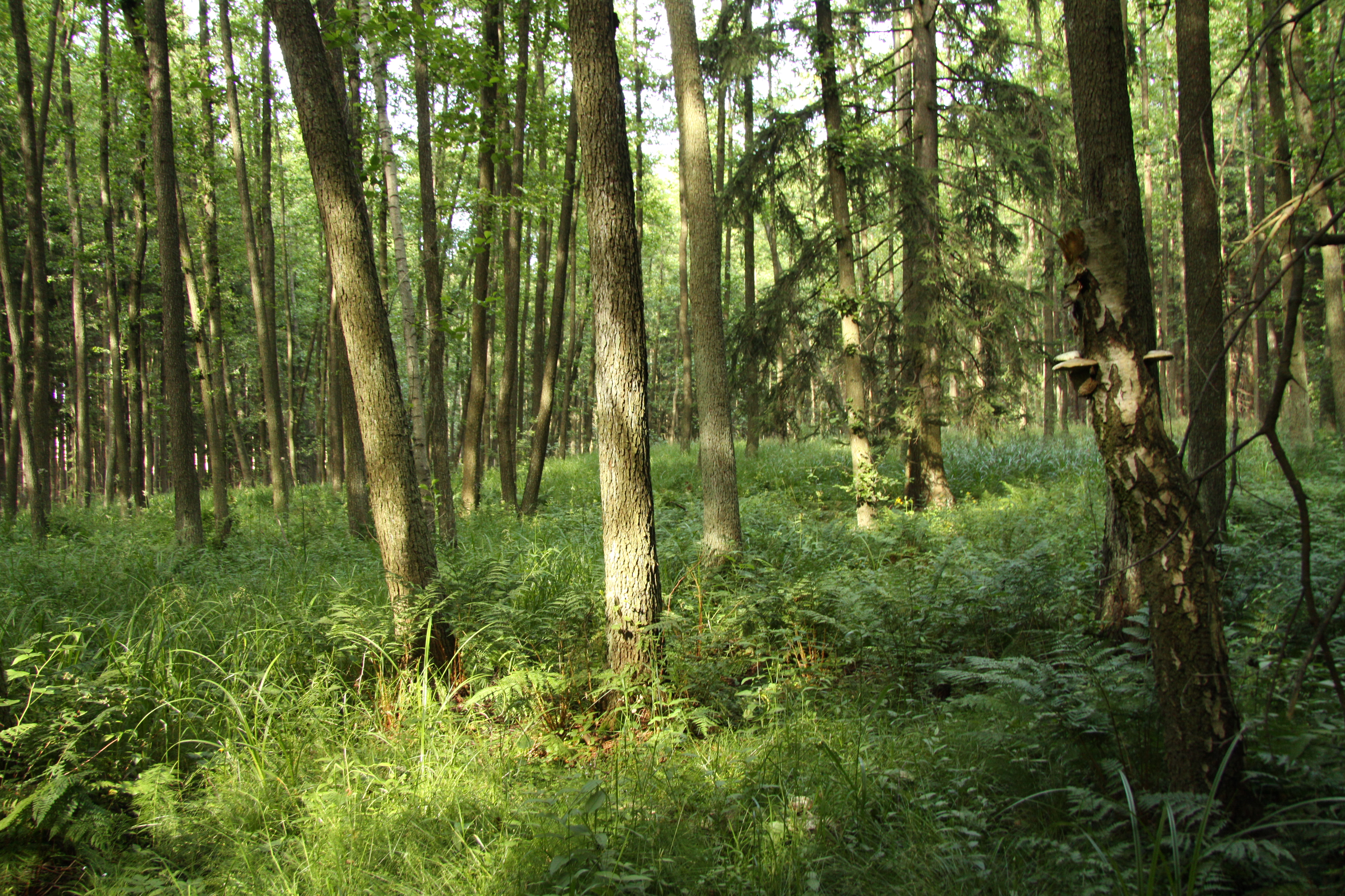 Natural monument U Bezděčína in Pelhřimov Ditrict, Czech Republic - Google Maps - Google Earth